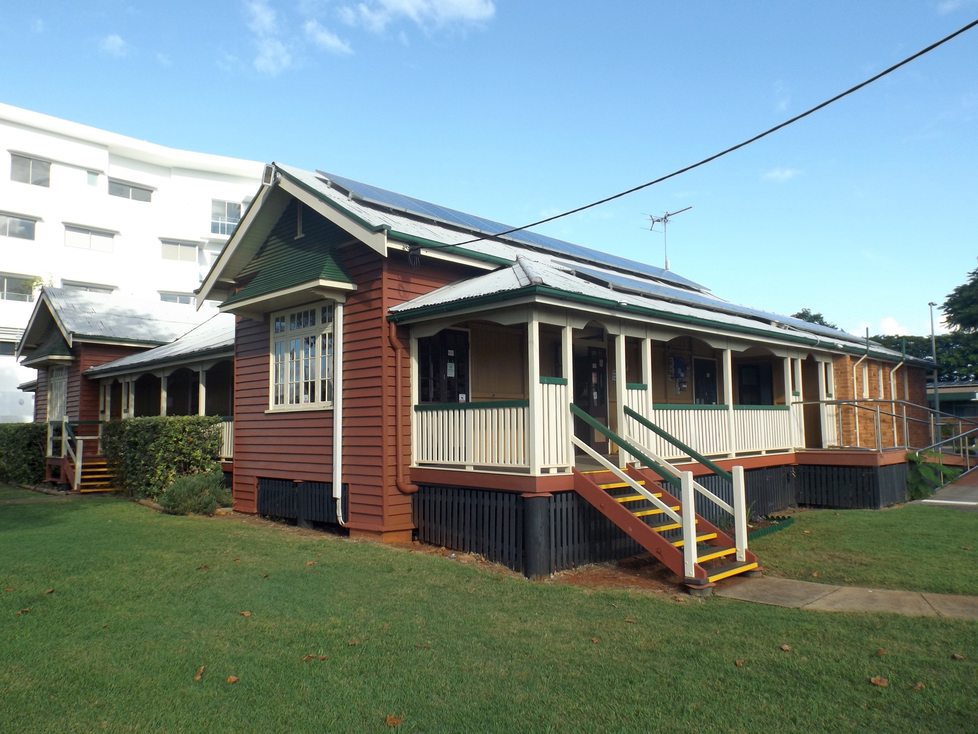 Photo of Old Cleveland Police Station at Cleveland, City of Redland, Queensland, Australia.